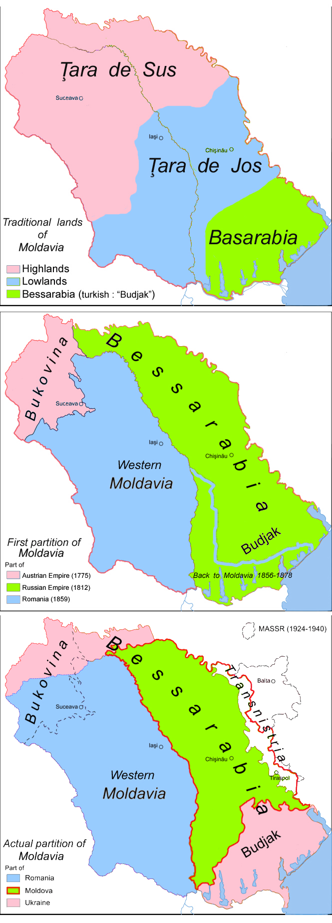 The regions of the historical principality of Moldavia, with distribution of these regions in modern states